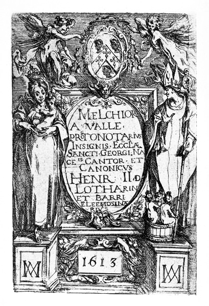 Ex-libris of Melchior de La Vallée